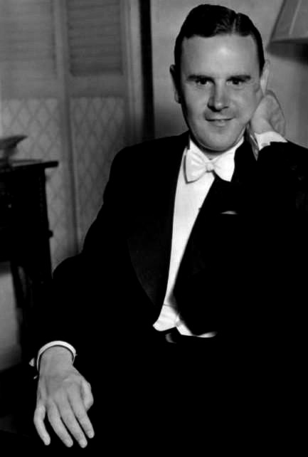 Publicity photo of pianist Alec Templeton.